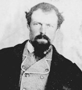 Photograph of Gilbert Buote, 1833-1904